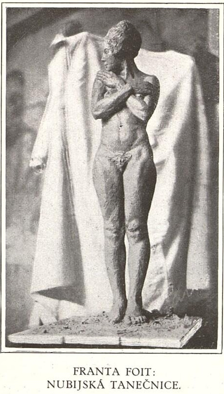 František Foit: Nubian dancer, 1925